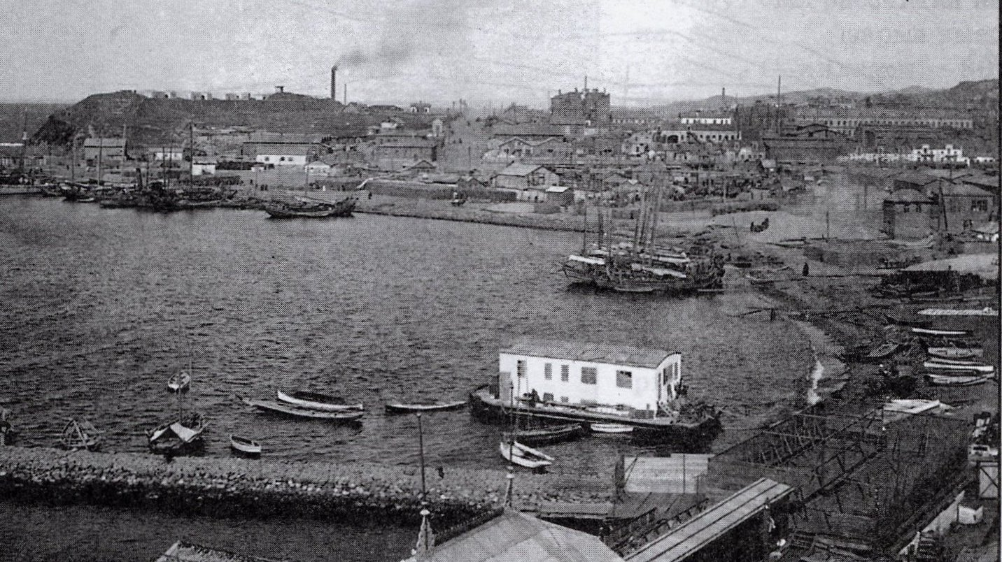 View of Semenovsky Kovsh in Vladivostok (Russia) from Tigrovaya Sopka